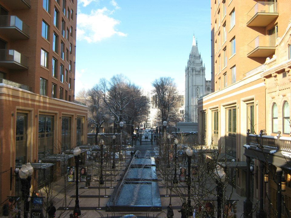 View of City Creek Center and the Salt Lake Temple